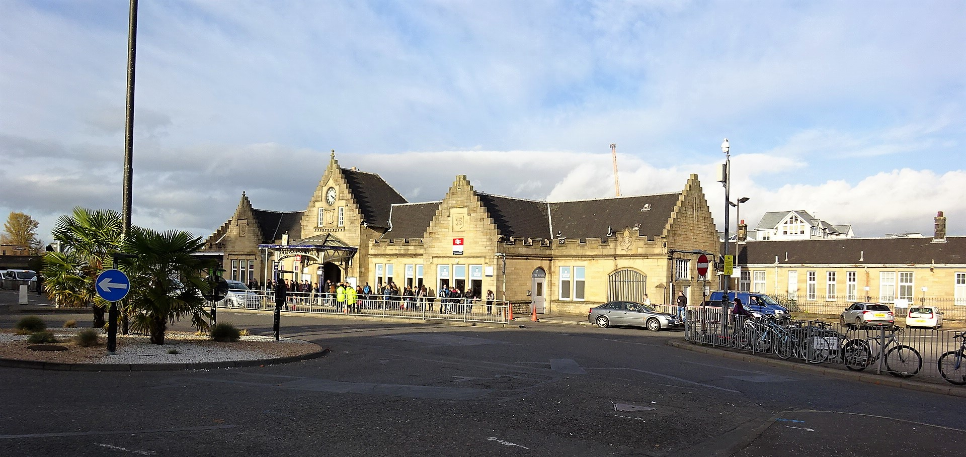 Stirling railway station, frontage, Scotland.